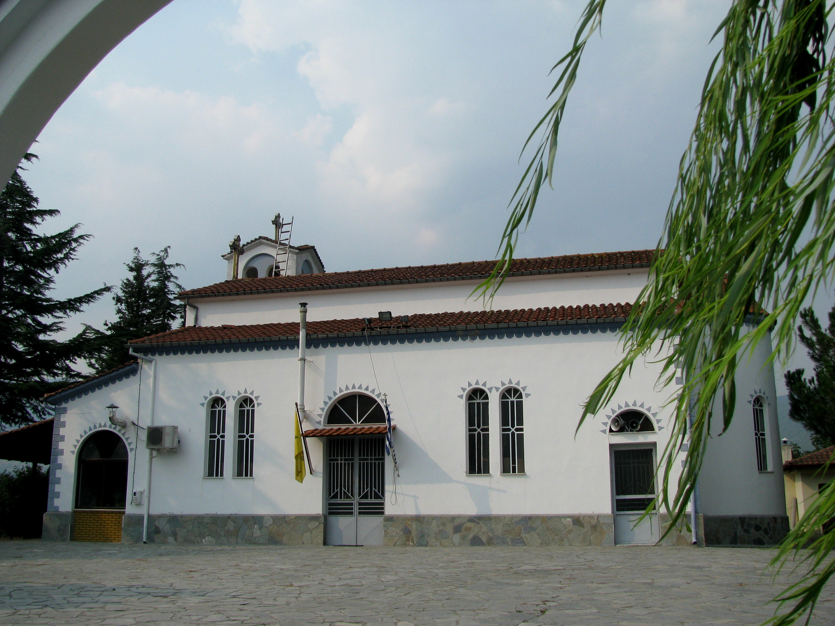 Church Sv. Elijah in Rusilovo, Ksantogia, Greece